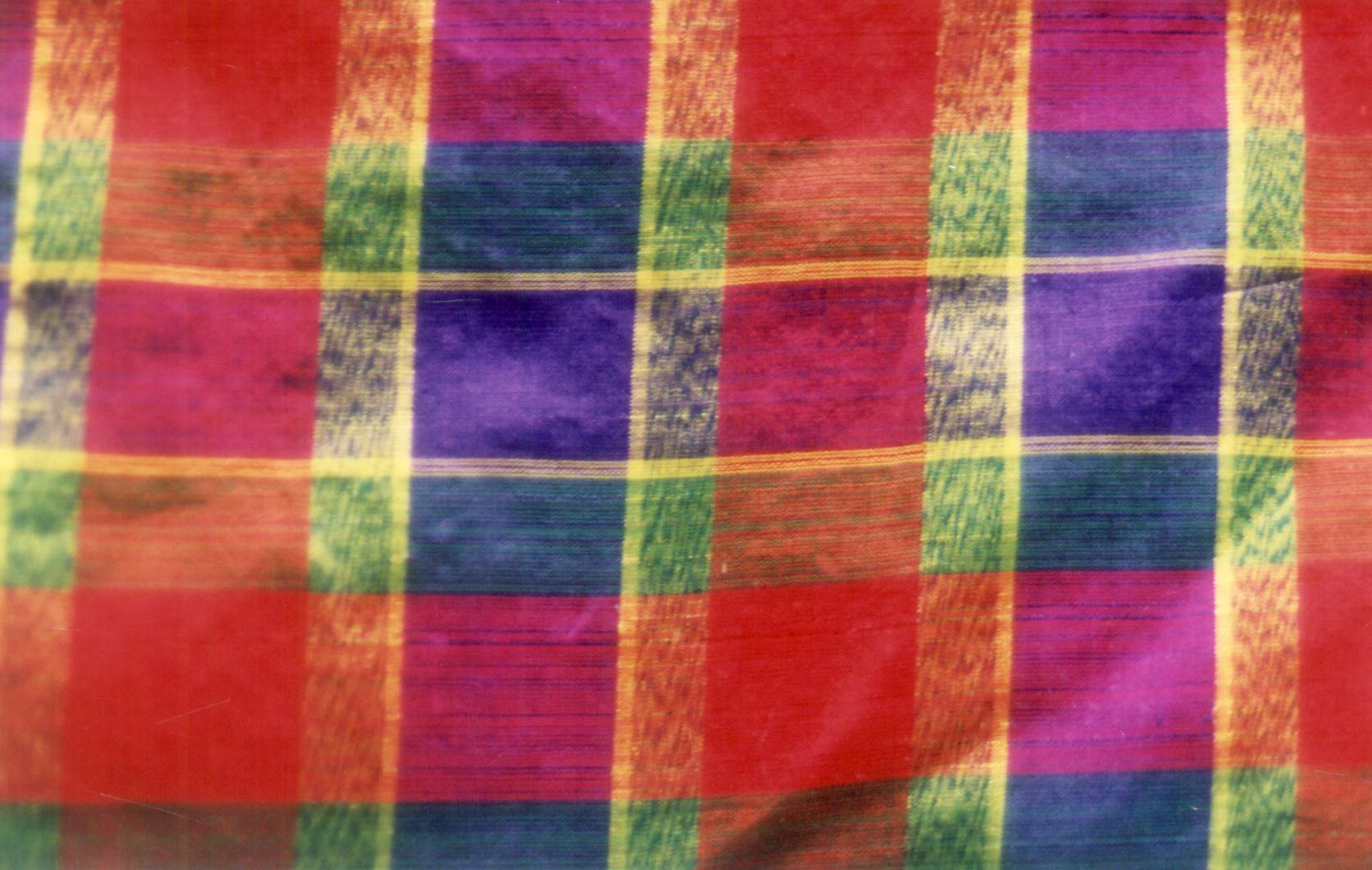 Close up of colorful Cambodian silk